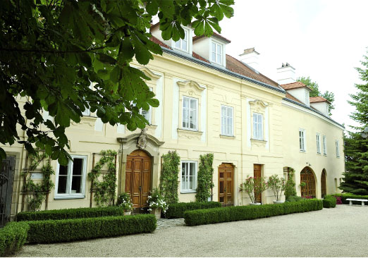 Front view of new KLI building in Klosterneuburg, Austria